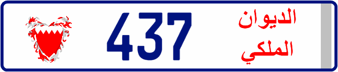 License plate from Bahrain